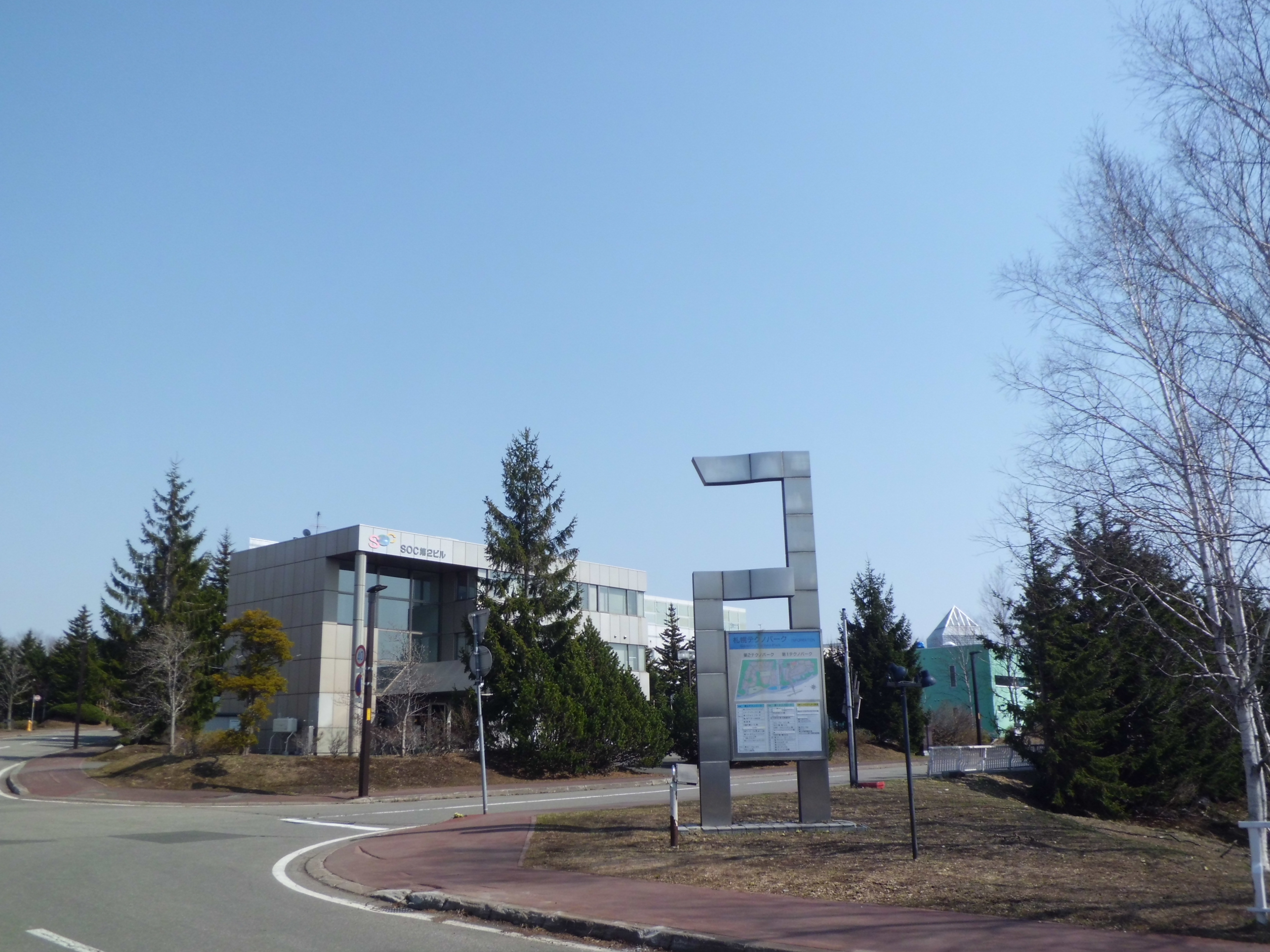 Shimonopporo 1st Techno Park